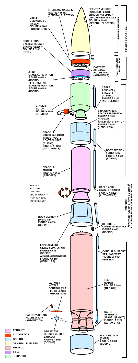 Exploded view of the Minuteman III missile.